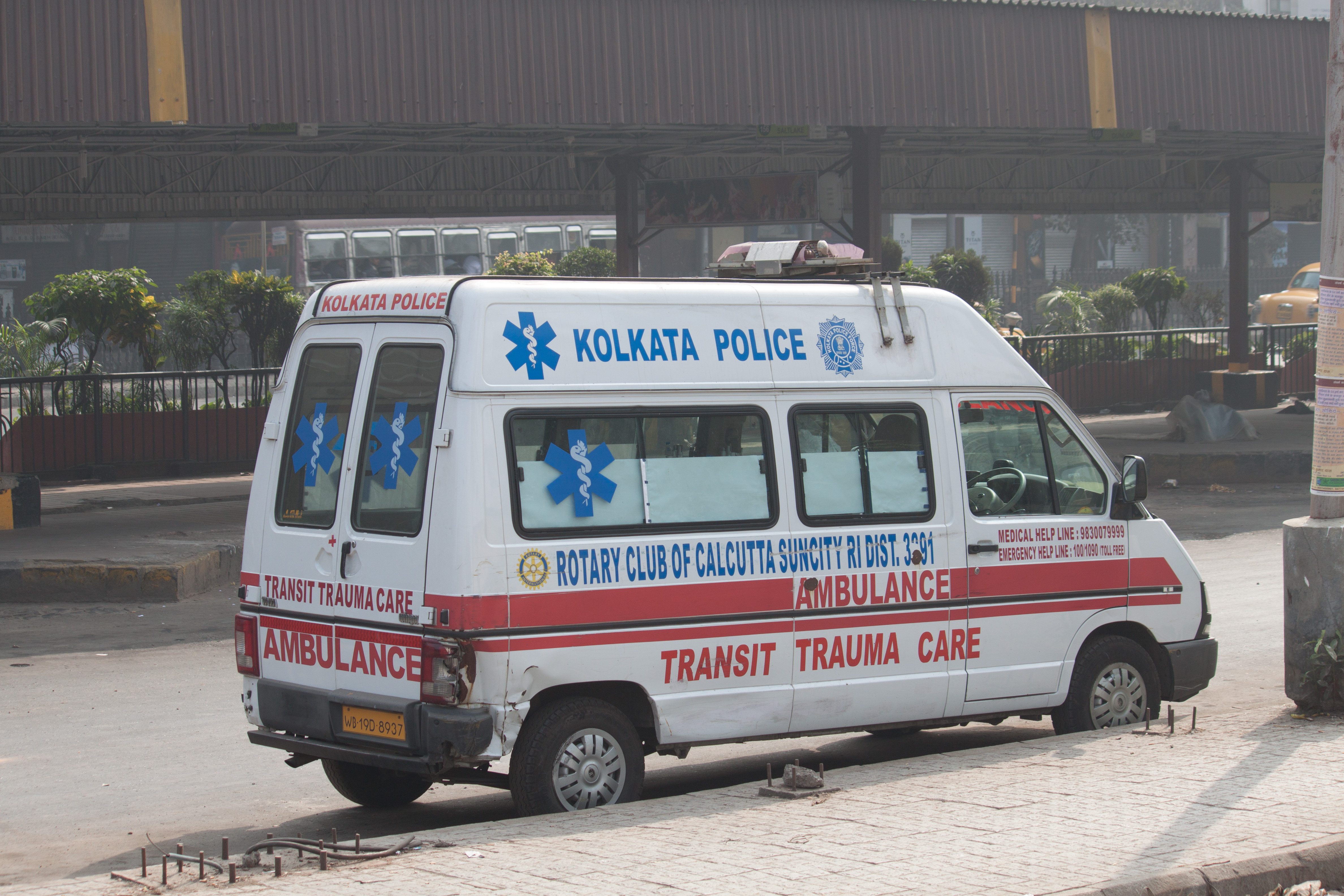 Ambulance of the Kolkata Police at Dalhousie East.